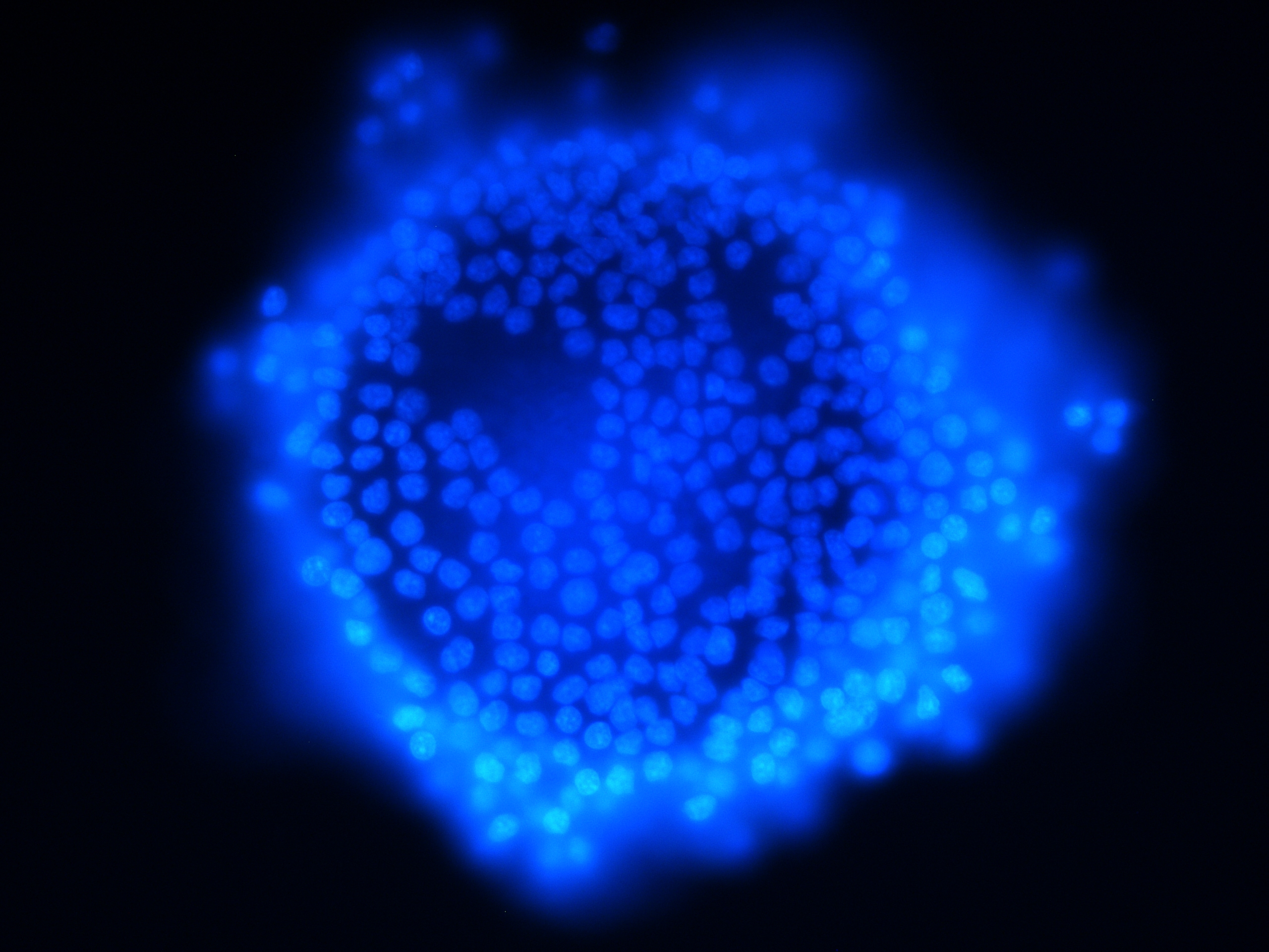 A pig oocyte taken from a young animal from a slaughterhouse. It is surrounded by small granulosa cells. Colored with DAPI. Fluorescence microscopy. Objective lens 40x.